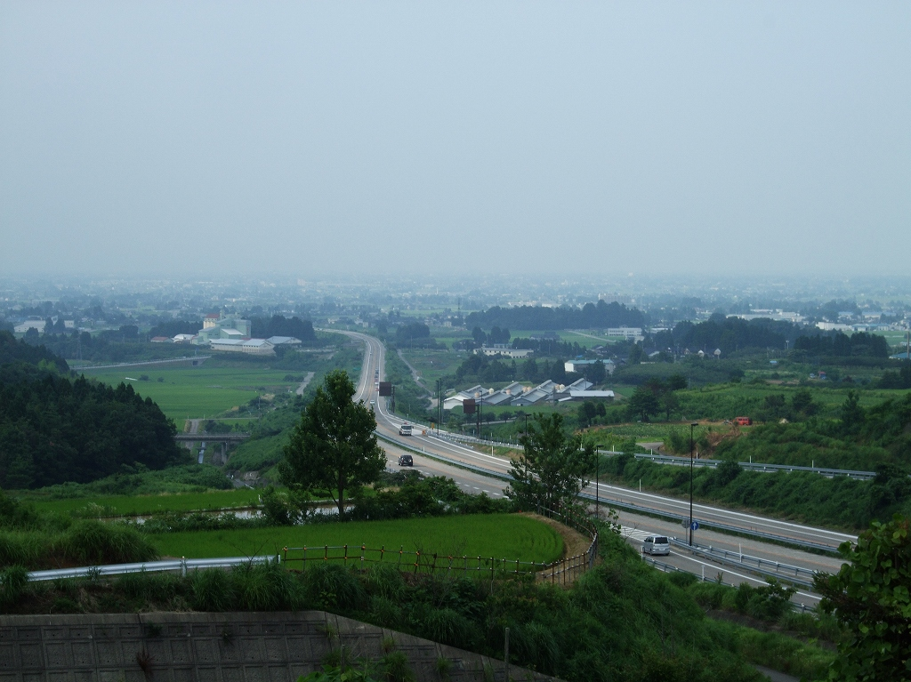 View of the Tonami Plain from Johana Service Area on the Tokai-Hokuriku Expressway